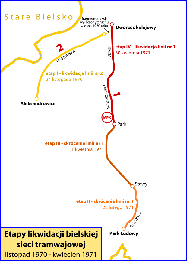 Stages of tram lines liquidation in Bielsko-Biała.